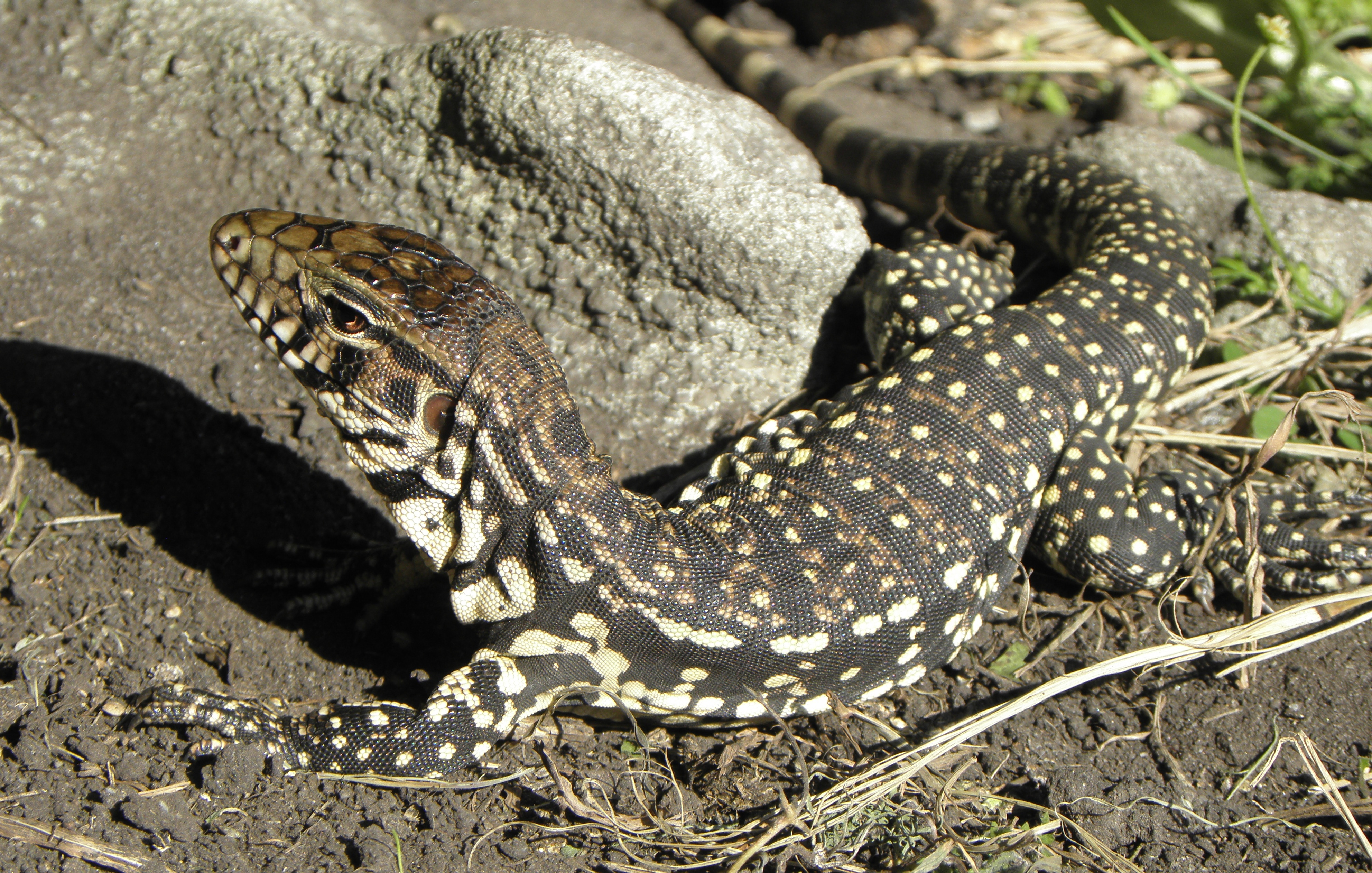 Argentine black and white tegu (Salvator merianae) juvenil, wildlife in Sierra de los Padres, Buenos Aires province, Argentina.